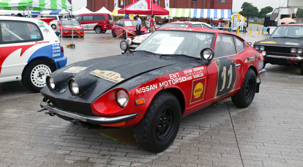 Datsun Fairlady Z, in 1971 The 19th East African Safari Rally Winning Car